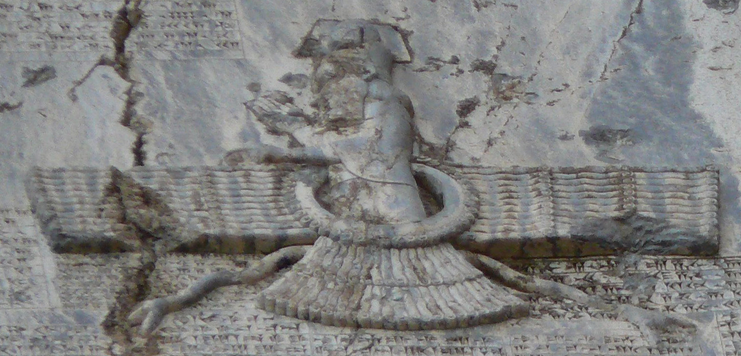 Faravahar on the Behistun Inscription